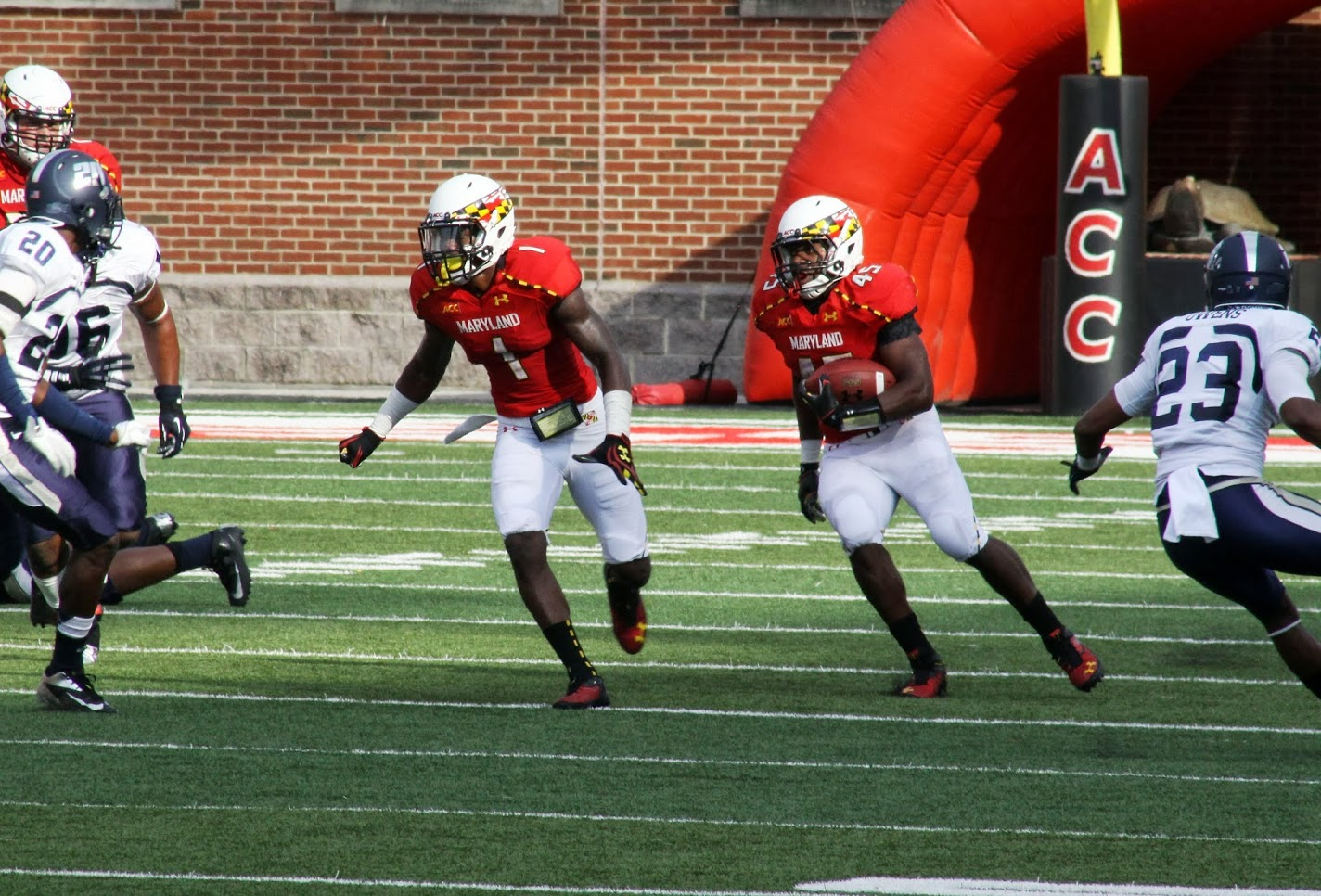 Brandon Ross rushes for 14 yards vs Old Dominion during the Terps 47-10 win on September 7, 2013. Stefon Diggs, left, prepares to lead block.